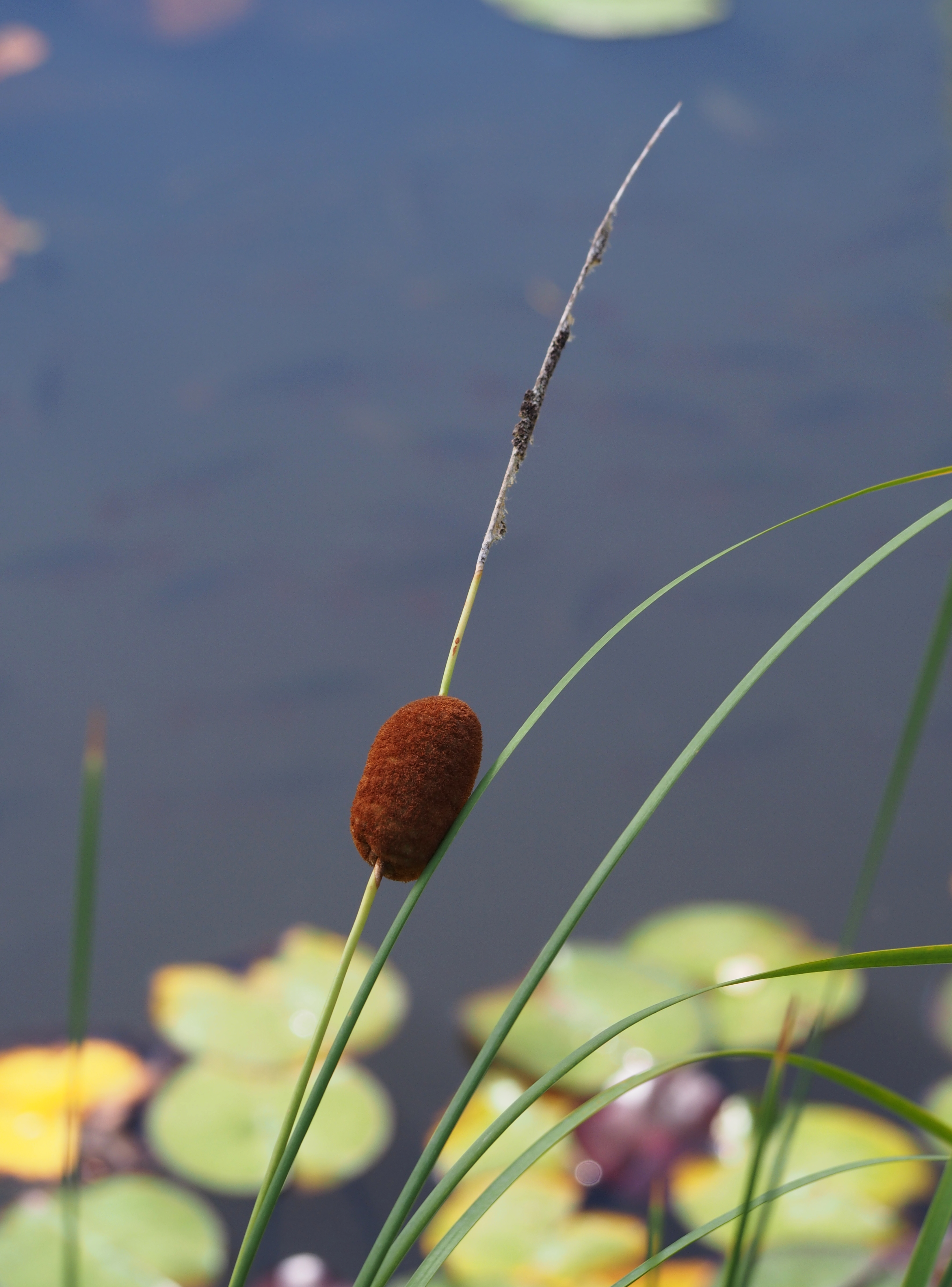 Typha laxmannii, plants cultivated in Wrocław University Botanical Garden, Wrocław, Poland.